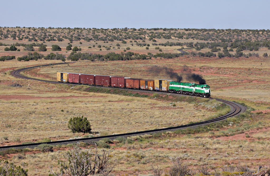 I love s-curves, and here the Alcos roll into the curves between Snowflake Jct and the paper mill.